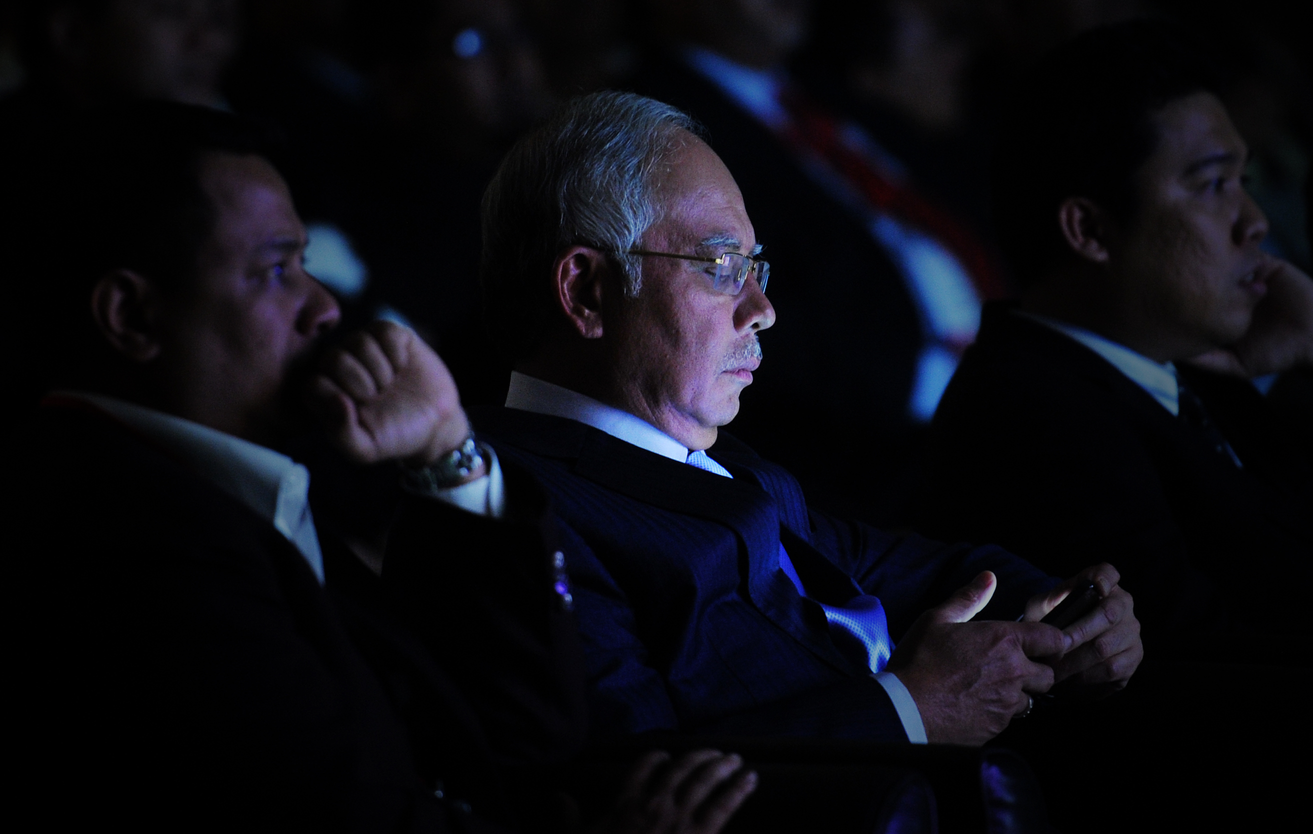 Kuala Lumpur, 08/11/2012. Prime Minister Najib Tun Razak see her phone after launches PUsh Initiative to boost IT sector at Menara TM. Pic Firdaus Latif